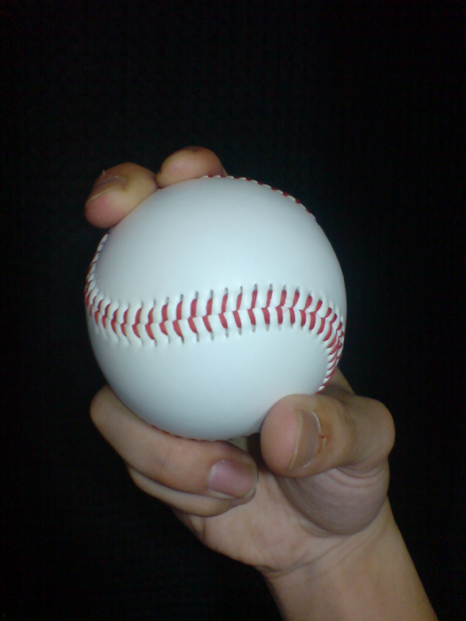 Cut fastball